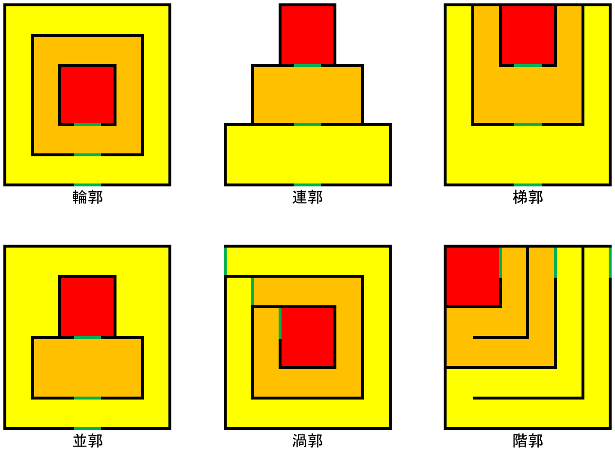 Various arrangements of the walls of a Japanese castle: Red: Honmaru Orange: Ni no maru Yellow: San no maru Black: walls Green: gates